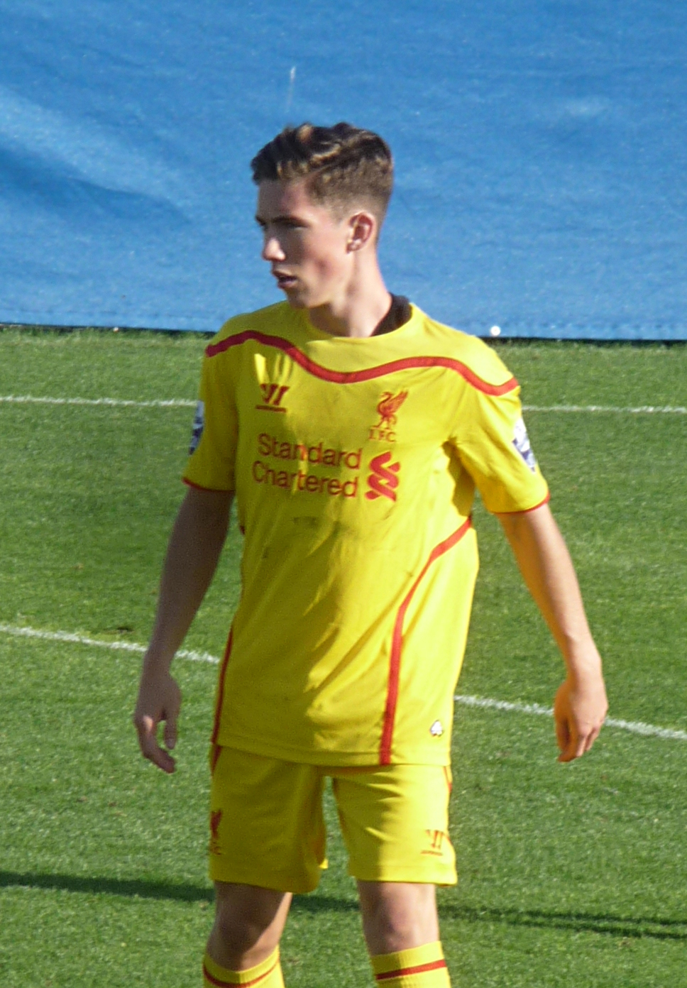 Liverpool and Wales winger Harry Wilson defends a free-kick in an UEFA Youth League group match between Basel U19s and Liverpool U19s at Campus FC Basel, 1st October 2014.